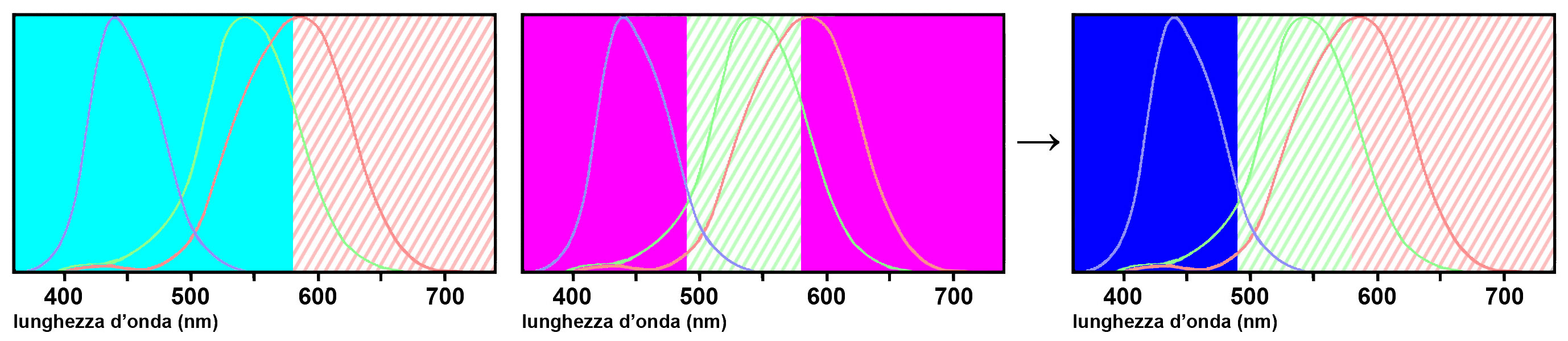 Two ideal subtractive primaries, magenta and cyan, are mixed and produce blue. These dyes are ideal since they transmit all frequencies in their pass-bands and nothing in their stop-bands.